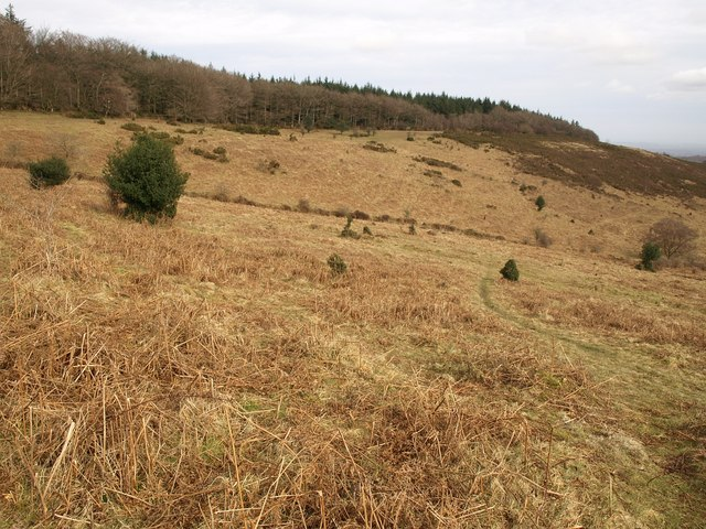 Aisholt Common. Another, winter, view of 231161 - Light Gate is a little way up on the left, where the bank crossing the image (followed by bridleway BW30/68) meets the plantation.